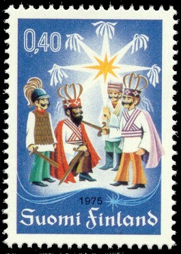 Finland Christmas issue 1975. Design by artist Pirkko Vahtero.